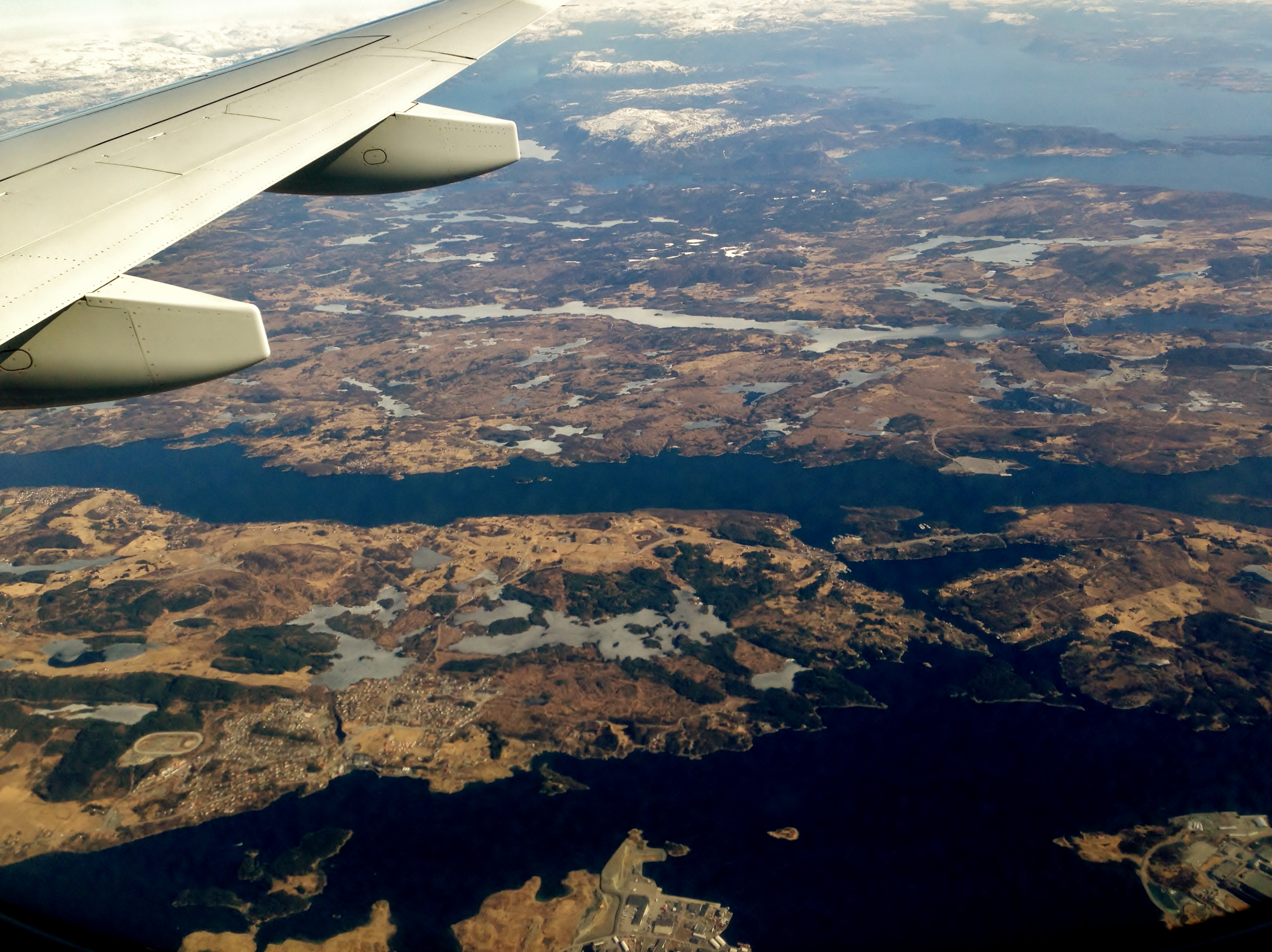 Tysvær municipality. Førresfjord (centre) and Karmsundet (bottom). Vormedal at bottom left.